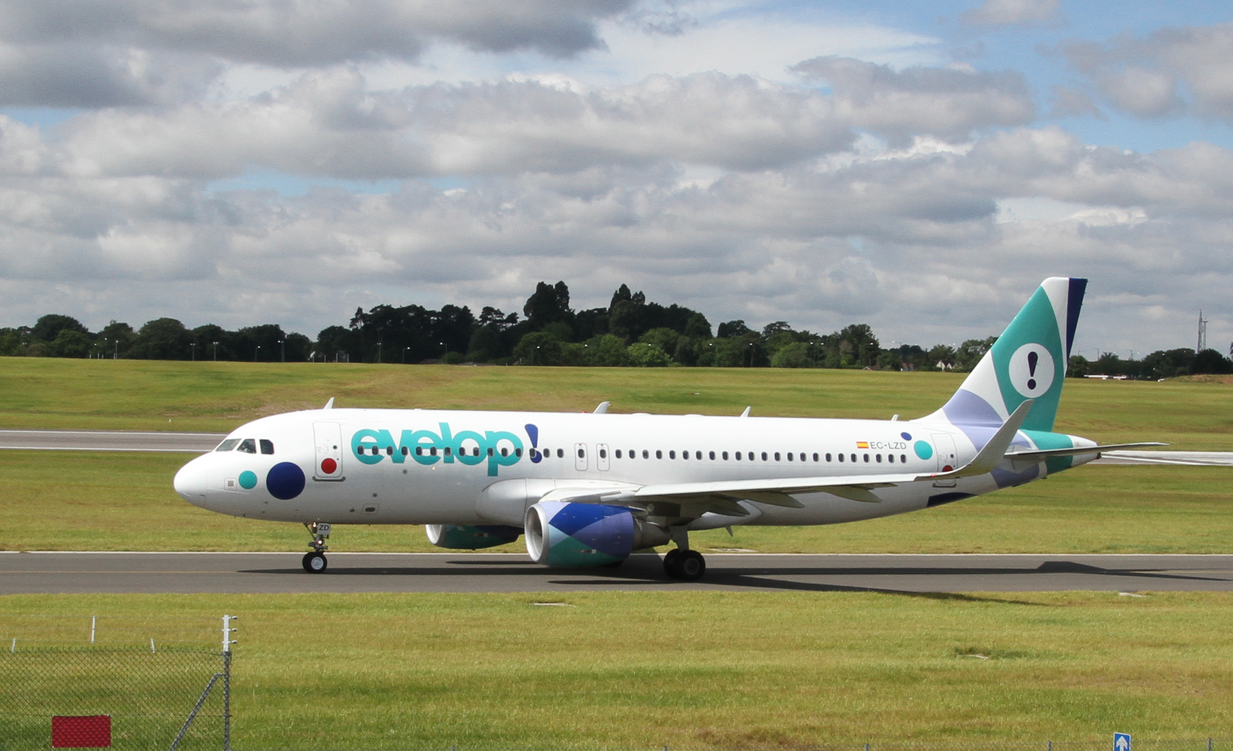 EC-LZD Evelop Airlines Airbus A320-214 2